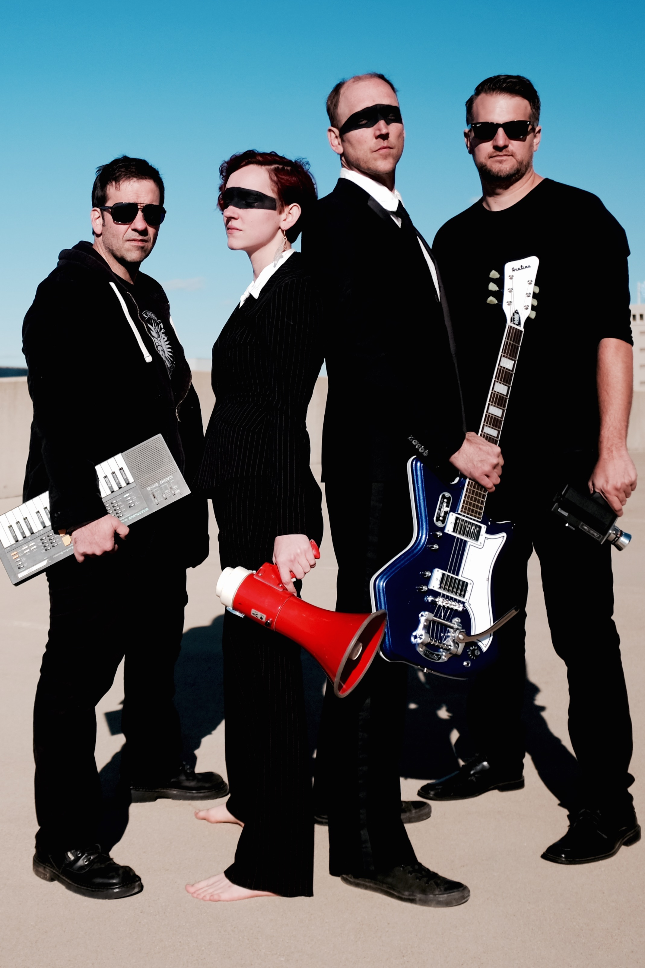 The band Earwig, l-r, Constantine Hondroulis, James McGee-Moore, Lizard McGee and Nicholas Nocera.